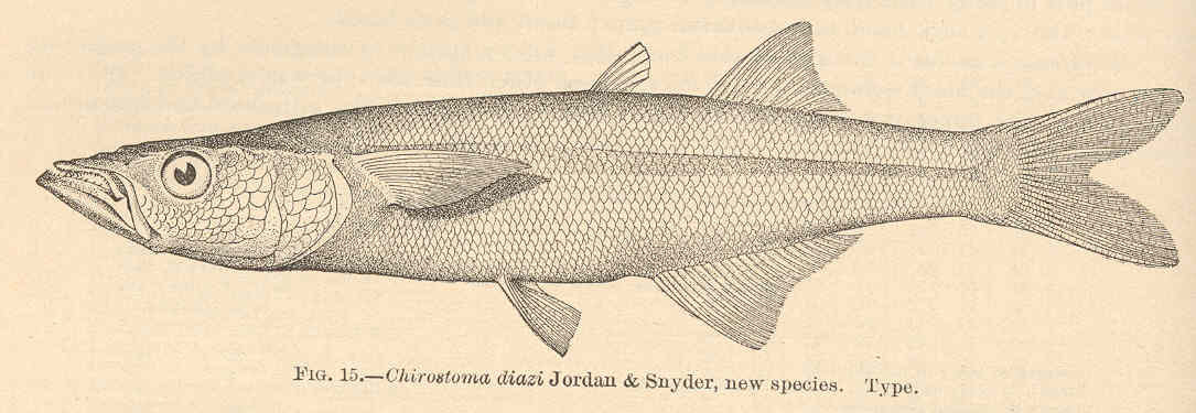 Chirostoma diazi Jordan & Snyder, new species. Type Subject: Chirostoma Tag: Fish